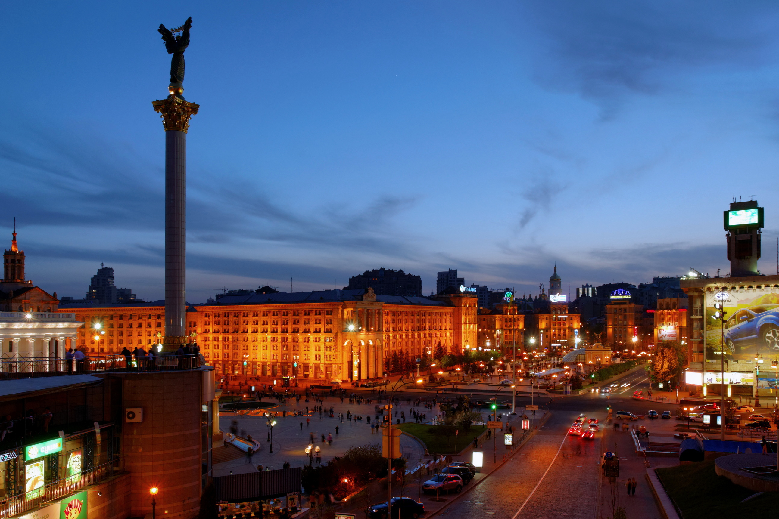 Kiev. Maidan Nezalezhnosti